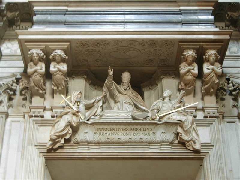 Monument to Pope Innocent X, Sant'Agnese in Agone, Rome